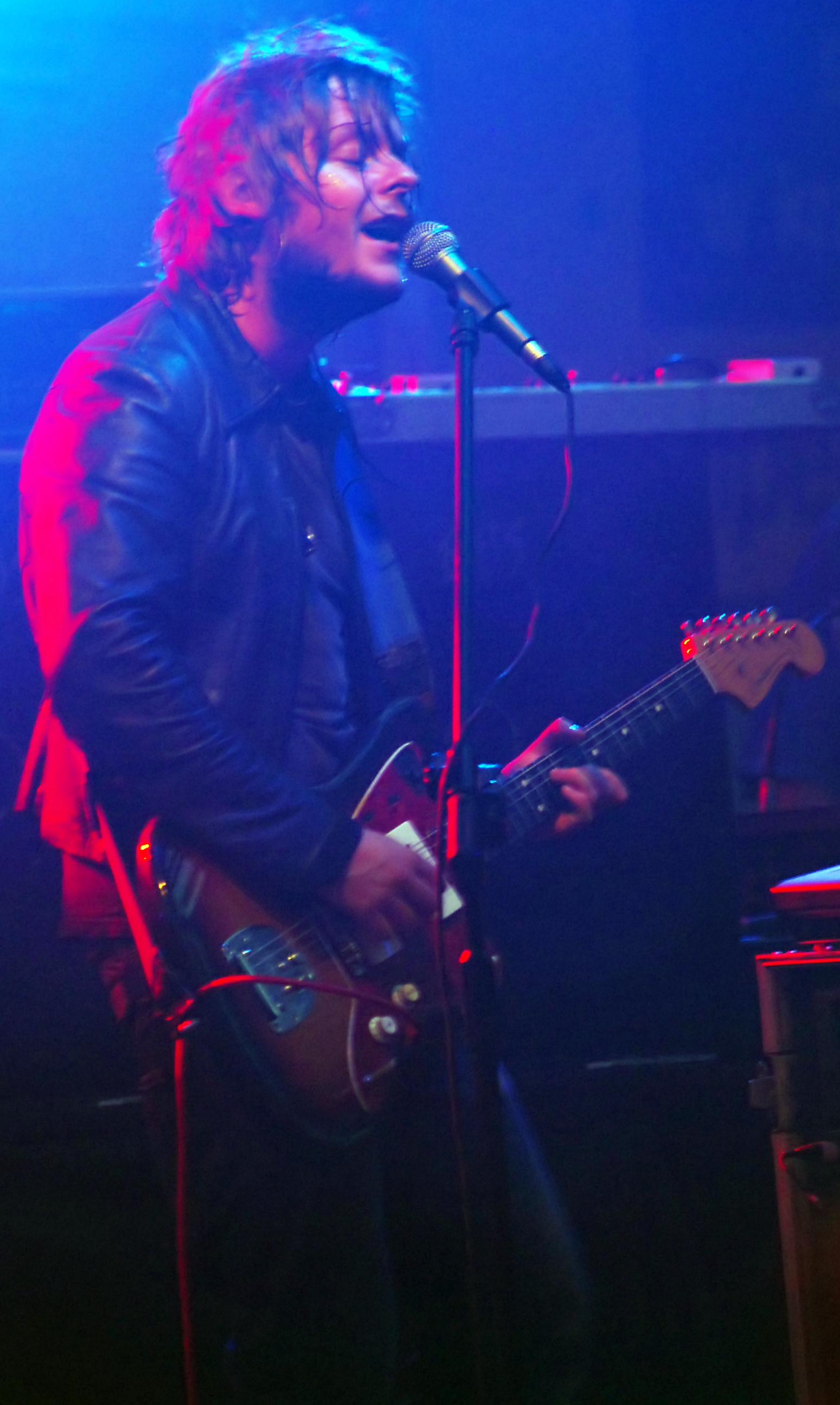 Jon from Pure Reason Revolution during concert in TS Wisła in Kraków To zdjęcie powstało dzięki współpracy z Rock-Servis